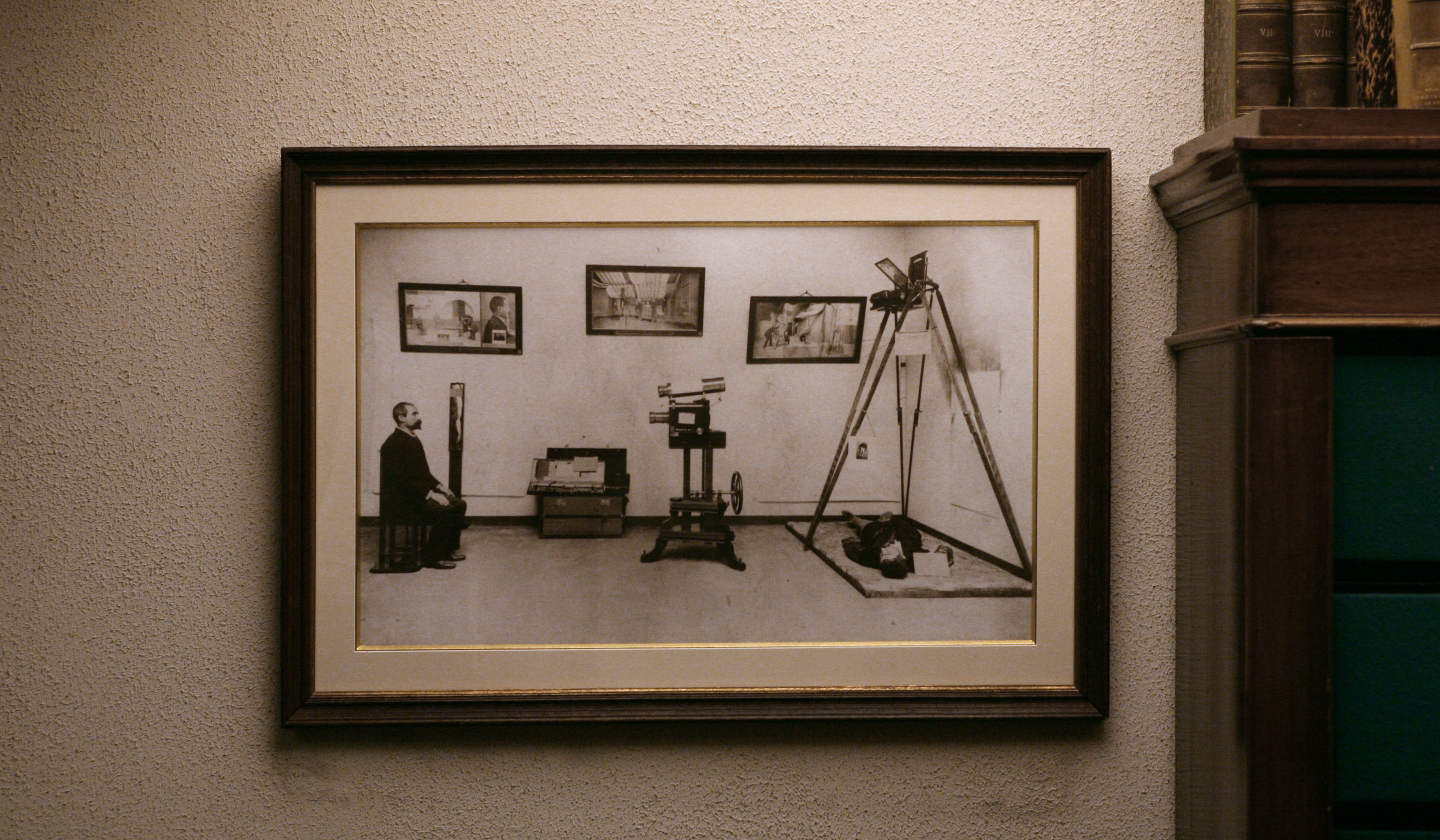 Alphonse Bertillon, View of identification photography and scene of crime and evidence photography. Taken from the display stand showing the work of the Préfecture de Police, made for the Exposition Universelle in Paris 1889. This photograph was taken in the Musée de la Préfecture de Police, Paris, in a room devoted to the work of Alphonse Bertillon.